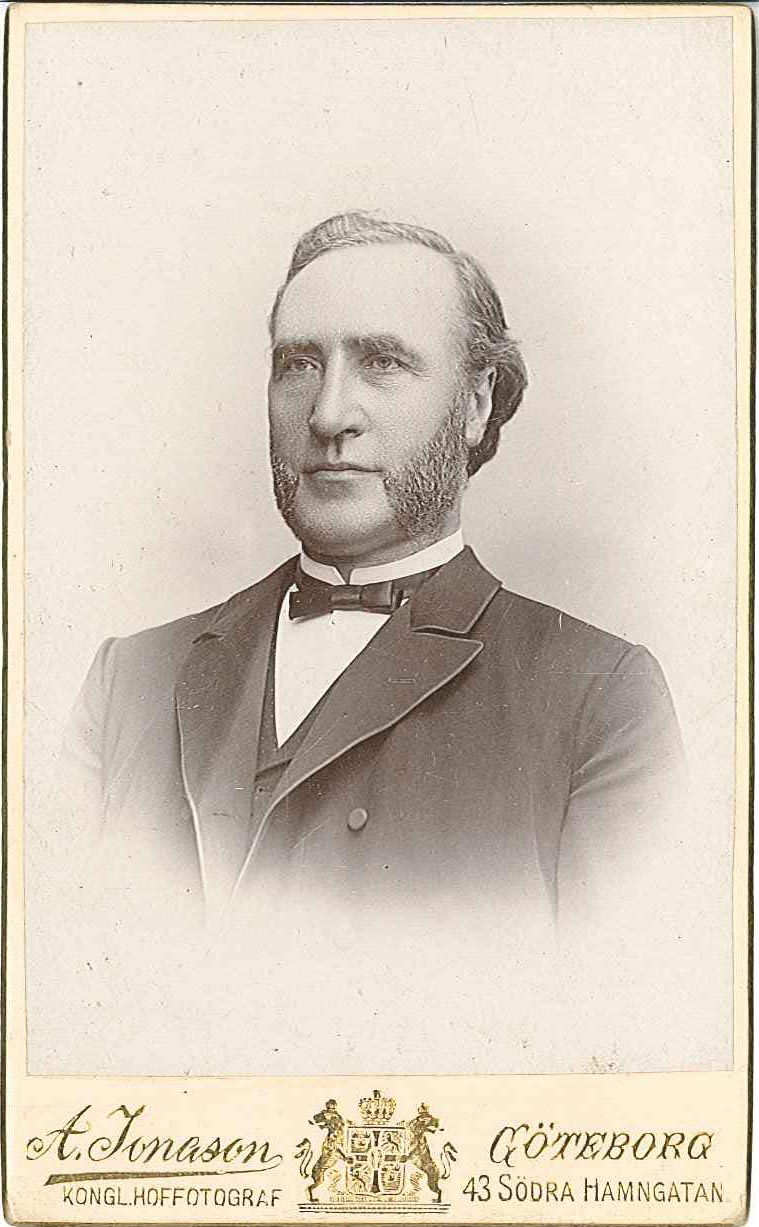 Mårten Svensson (1831-1898), Swedish civil servant and municipal politician